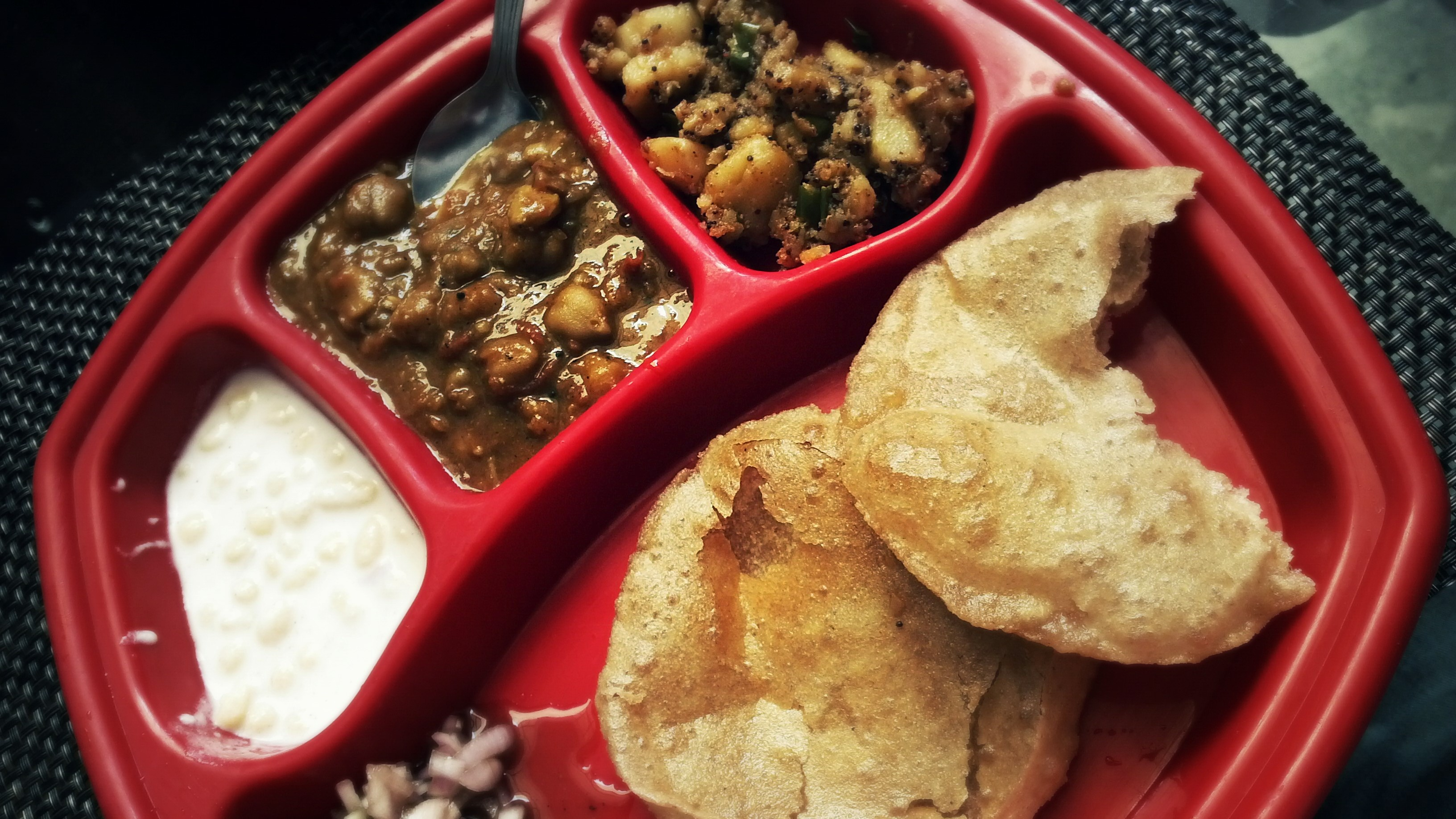 Punjabi chhole bhature